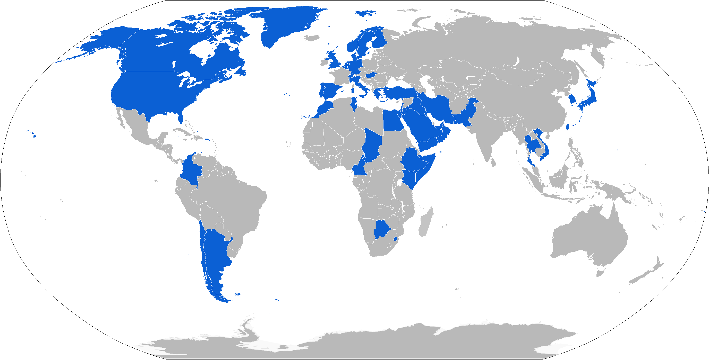 Map with BGM-71 operators in blue